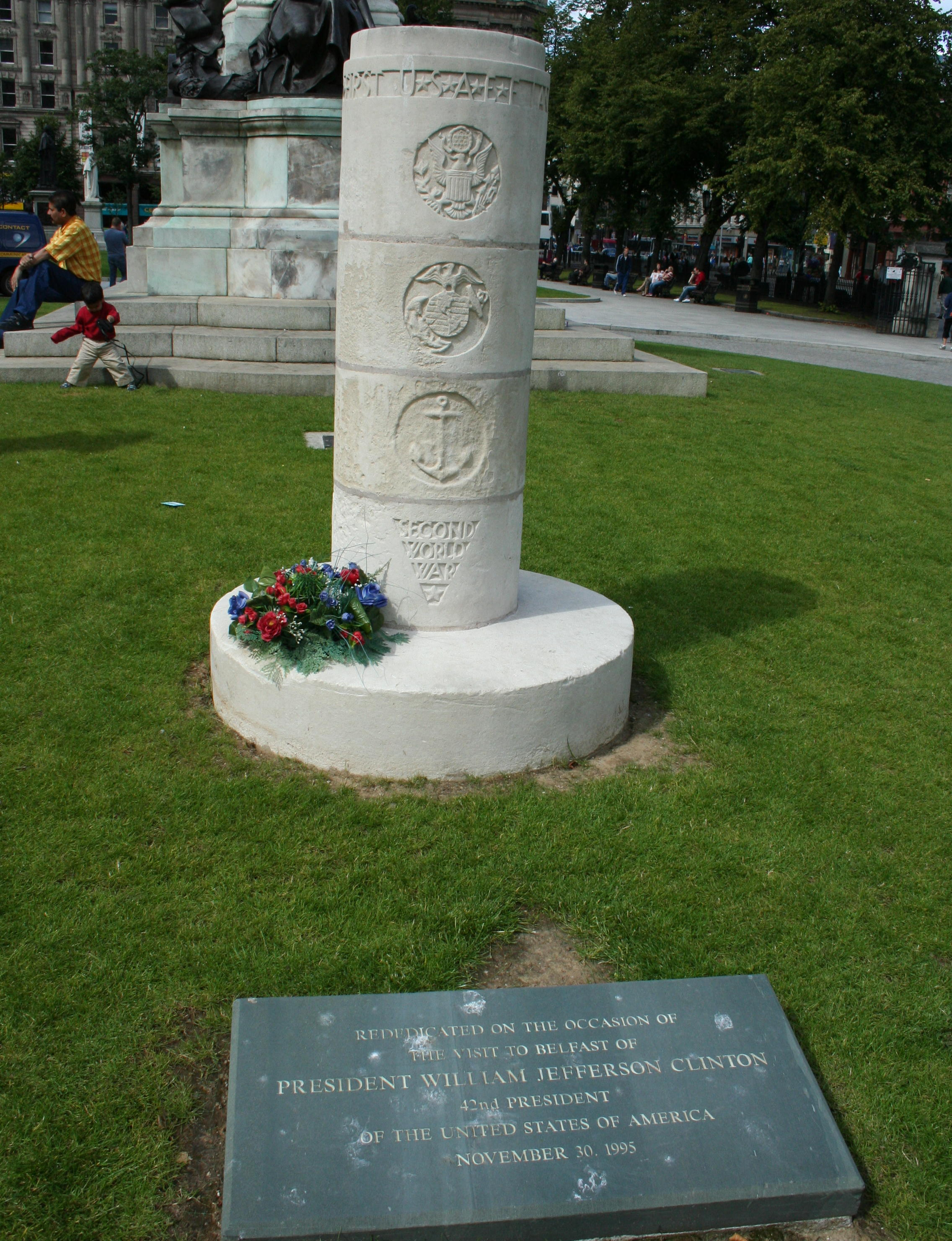 Monument to USAEF and rededication plaque, grounds of Belfast City Hall Credit: A Peter Clarke image